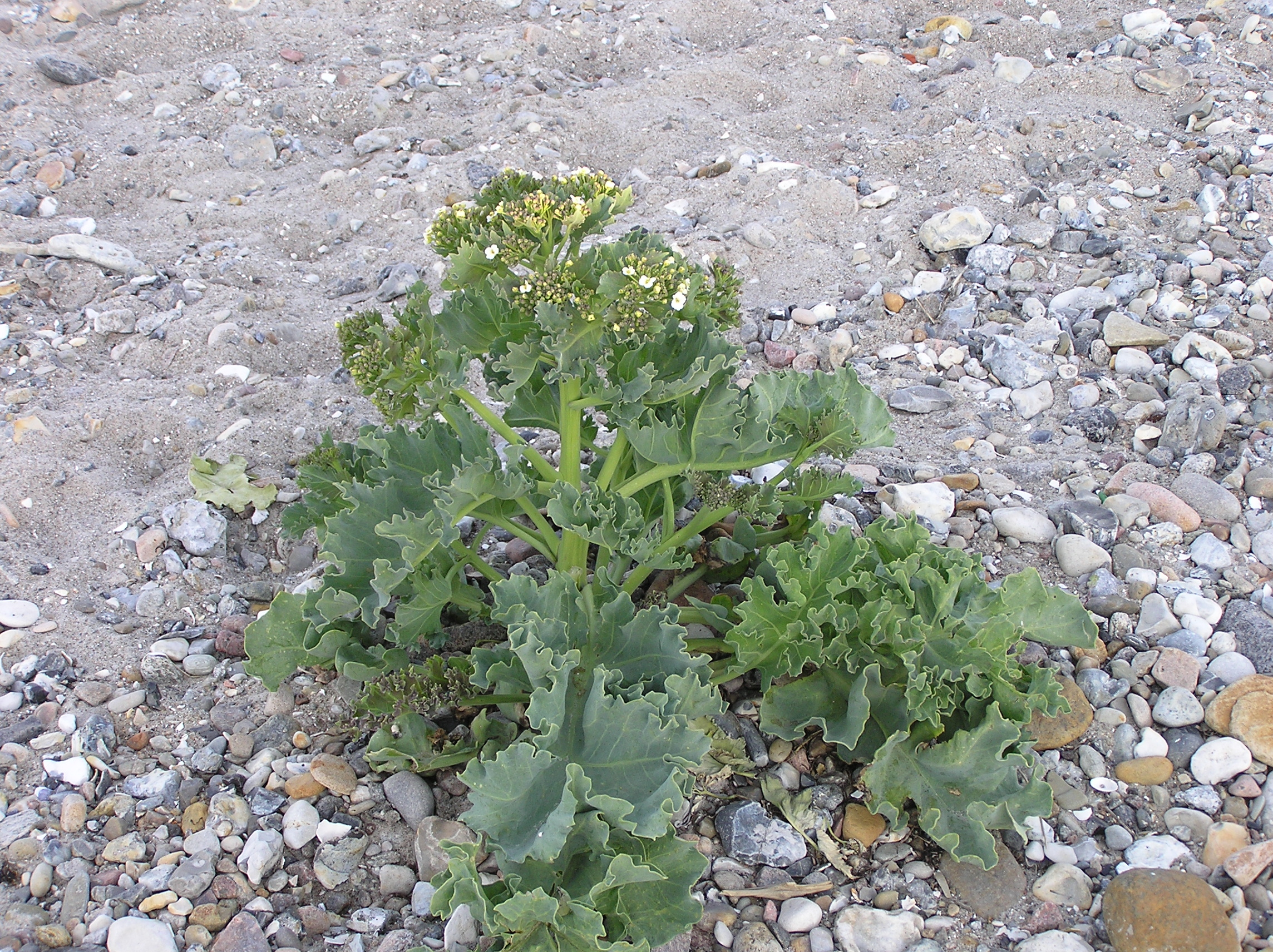 Crambe maritima